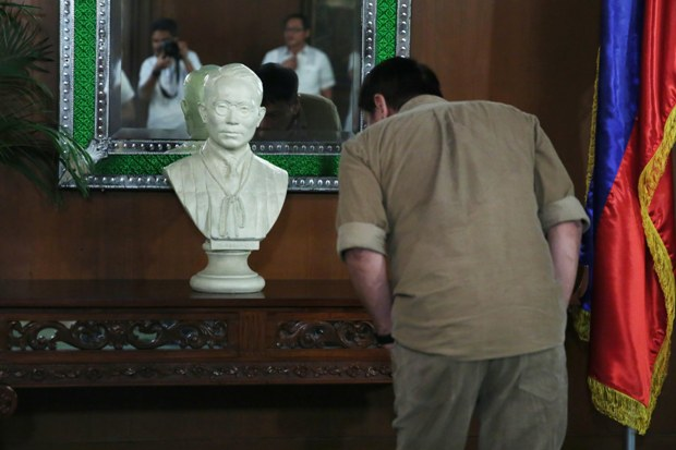 President Rodrigo R. Duterte looks at bust sculpture of composer Nicanor Abelardo at the Music Room in Malacañan Palace on July 13, 2016. Abelardo is known for his kundiman songs. TOTO LOZANO/PPD